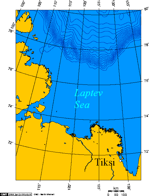 Port of Tiksi, Siberia, on the Laptev Sea, Arctic Ocean